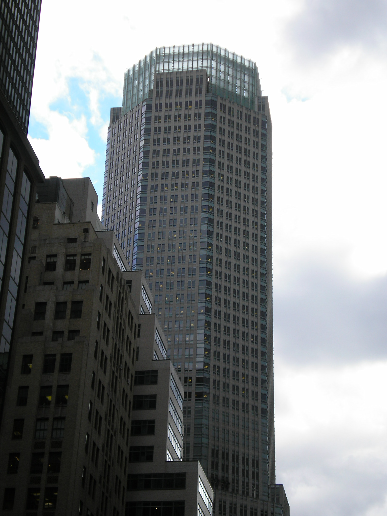 The author of this photo is me, David Shankbone. Taken 6 August 2006. The Bear Stearns building, New York City.